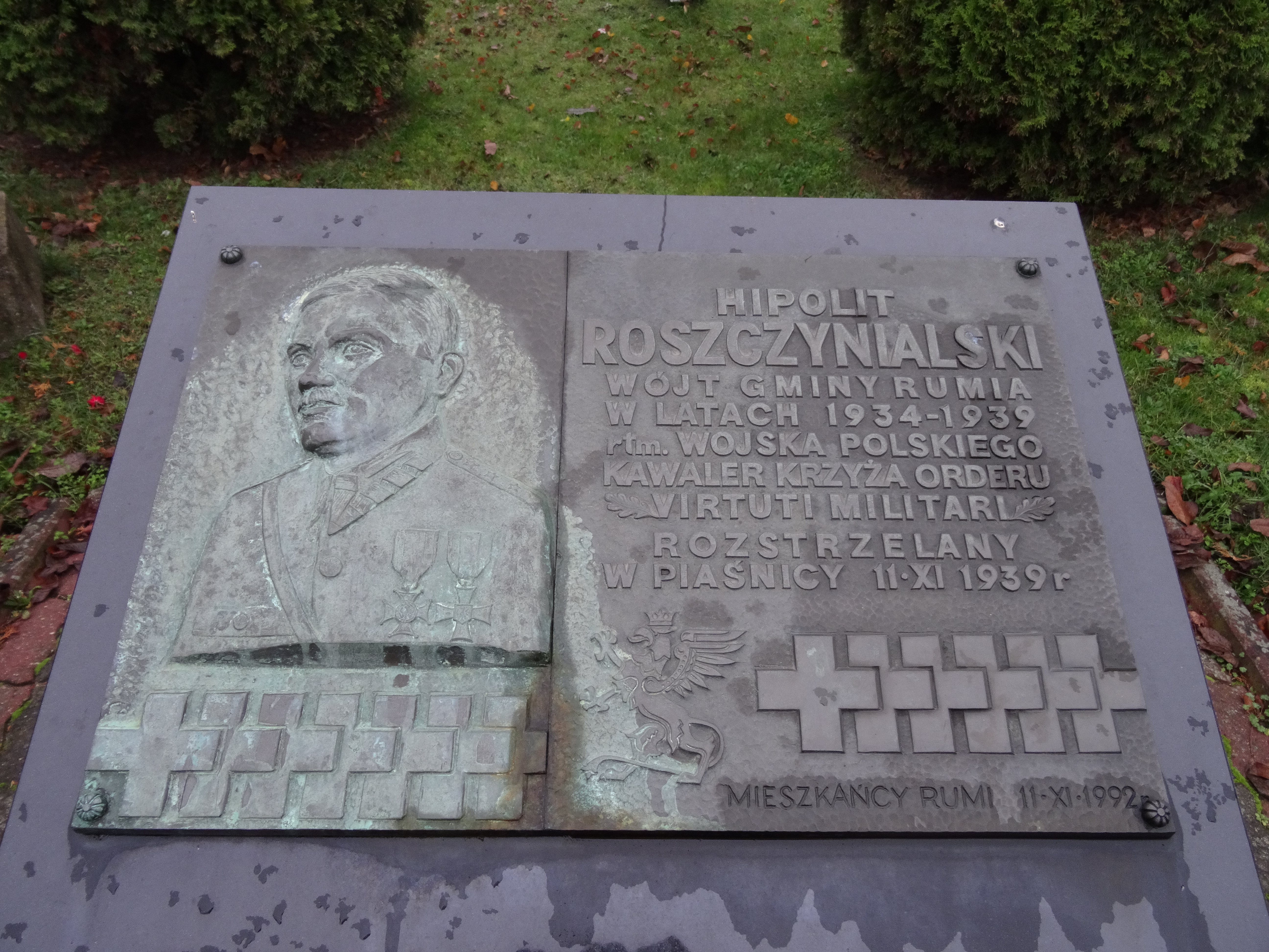 Rumia, Poland, Hipolit Roszczynialski plaque